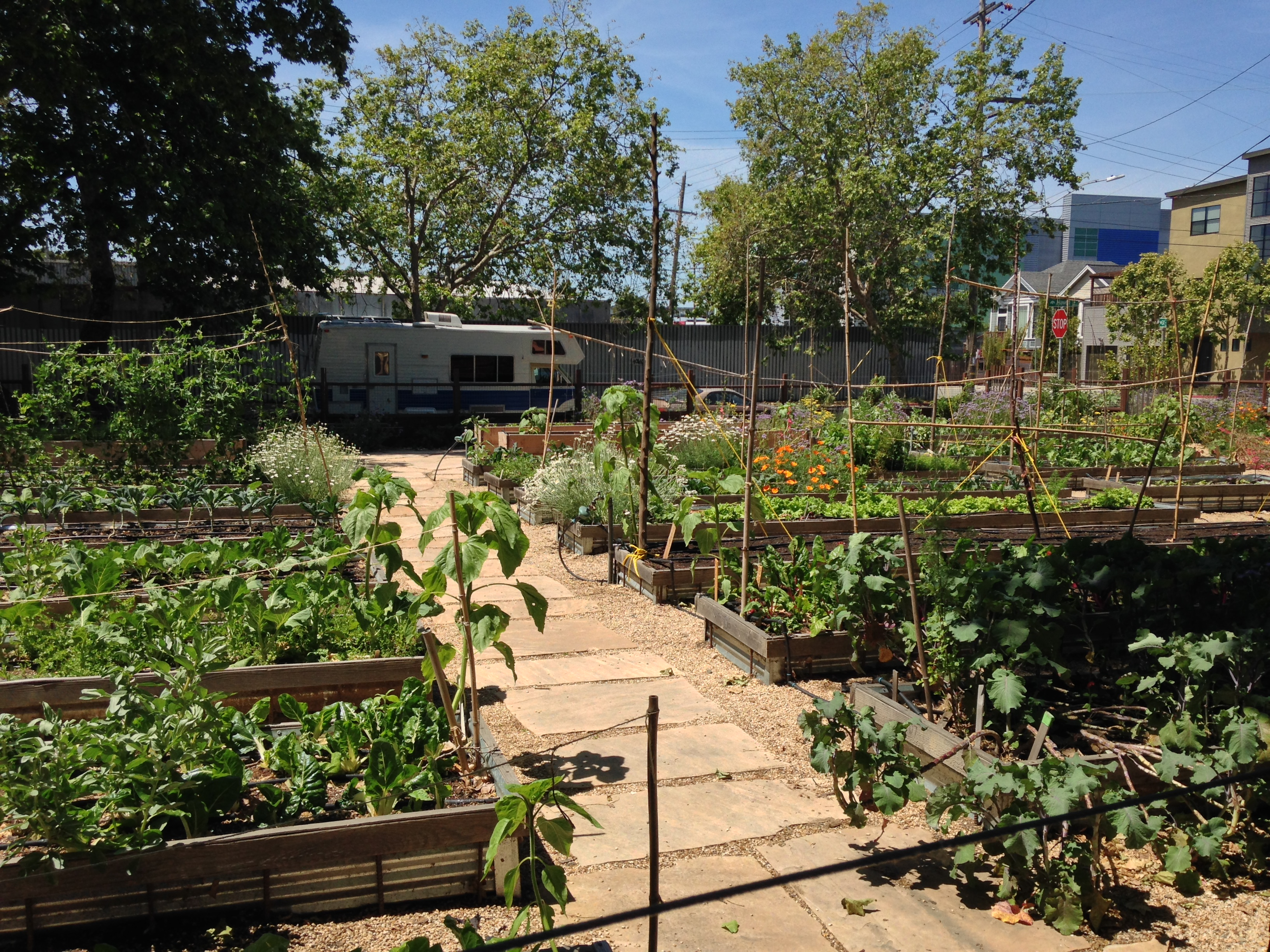 City slicker farms plot at their West Oakland farm.